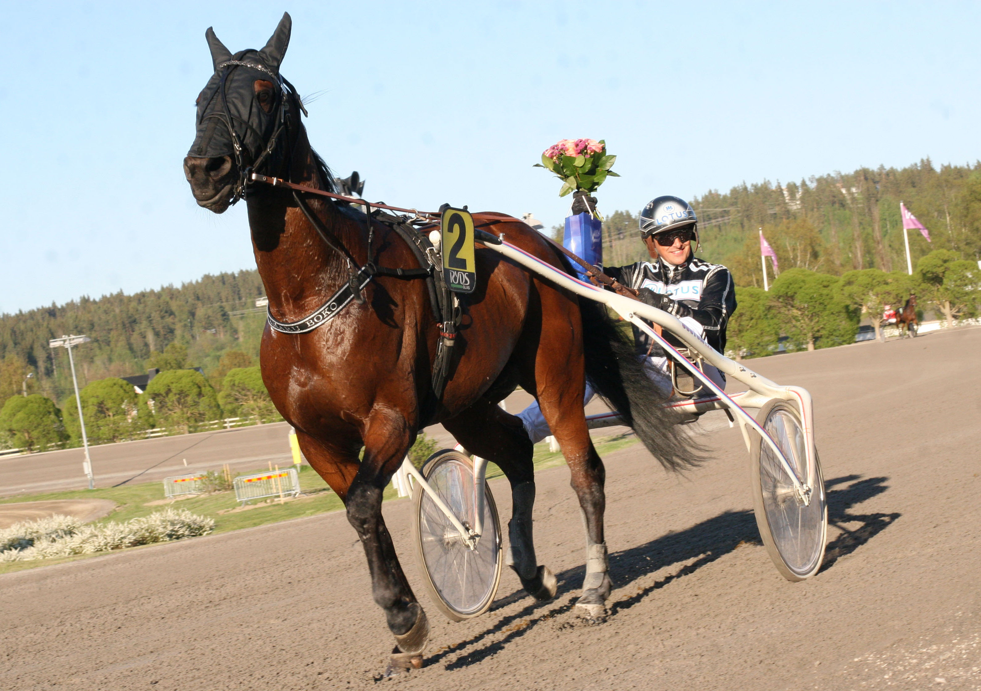 foto : aln : foto: berth magnusson foto finish bergsåker 20140521